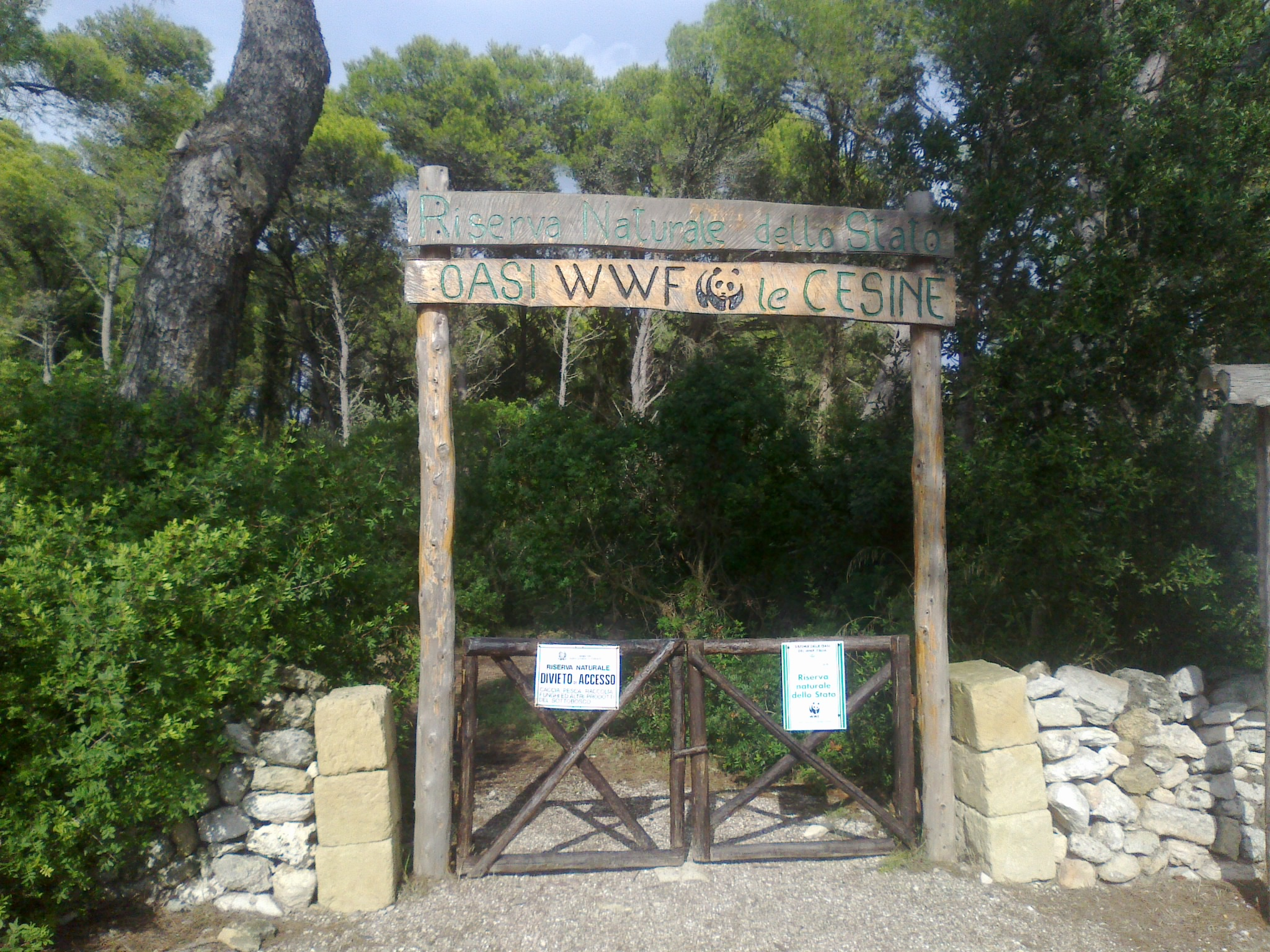 Le Cesine.